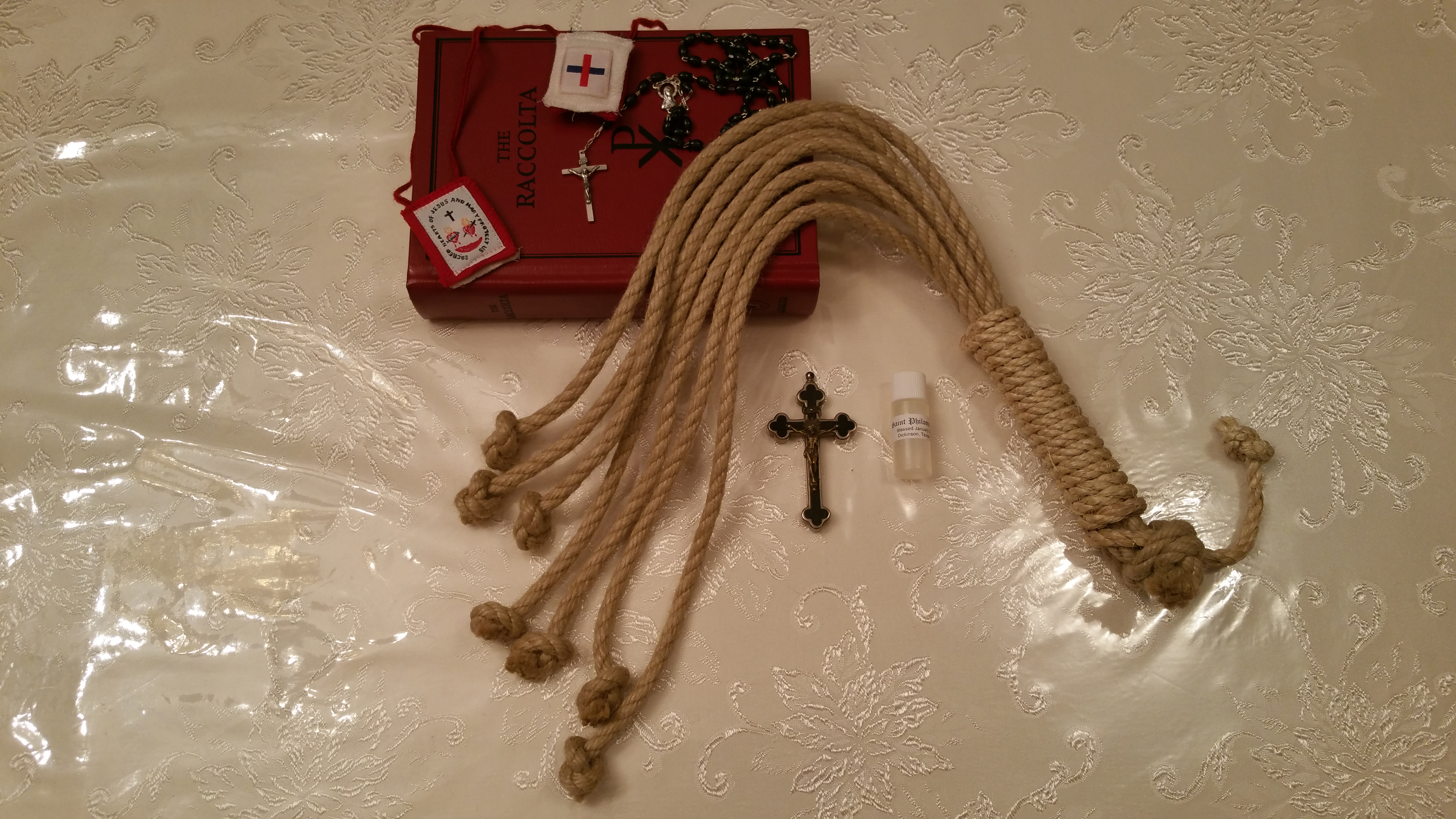 The image depicts a discipline used in the Christian practice of mortification of the flesh. The discipline's seven cords represent the seven deadly sins (for which the believer using it makes penance) and the seven virtues (which the believer works to emulate). In this image, the seven cords are lying on top of the Raccolta, a text which contains several acts of reparation. Other Roman Catholic devotional items including the Fivefold Scapular, Dominican Rosary, a crucifix used in an exorcism, and holy oil of Saint Philomena are also depicted. I clicked this picture on April 8, 2017.